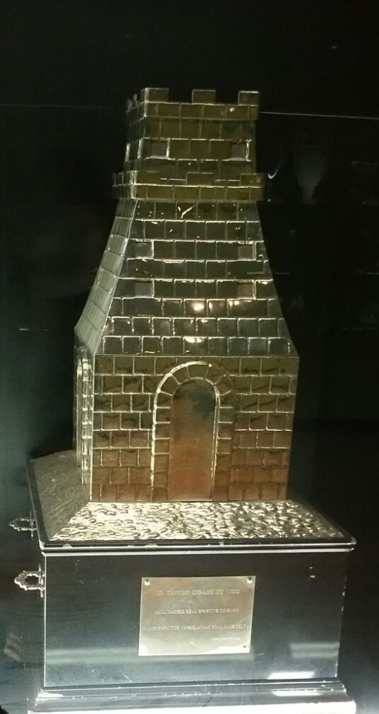 vigo trofeo